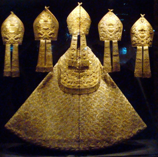 Cologne Cathedral Treasury (Domschatzkammer). Collection of liturgical robes (18th c.).